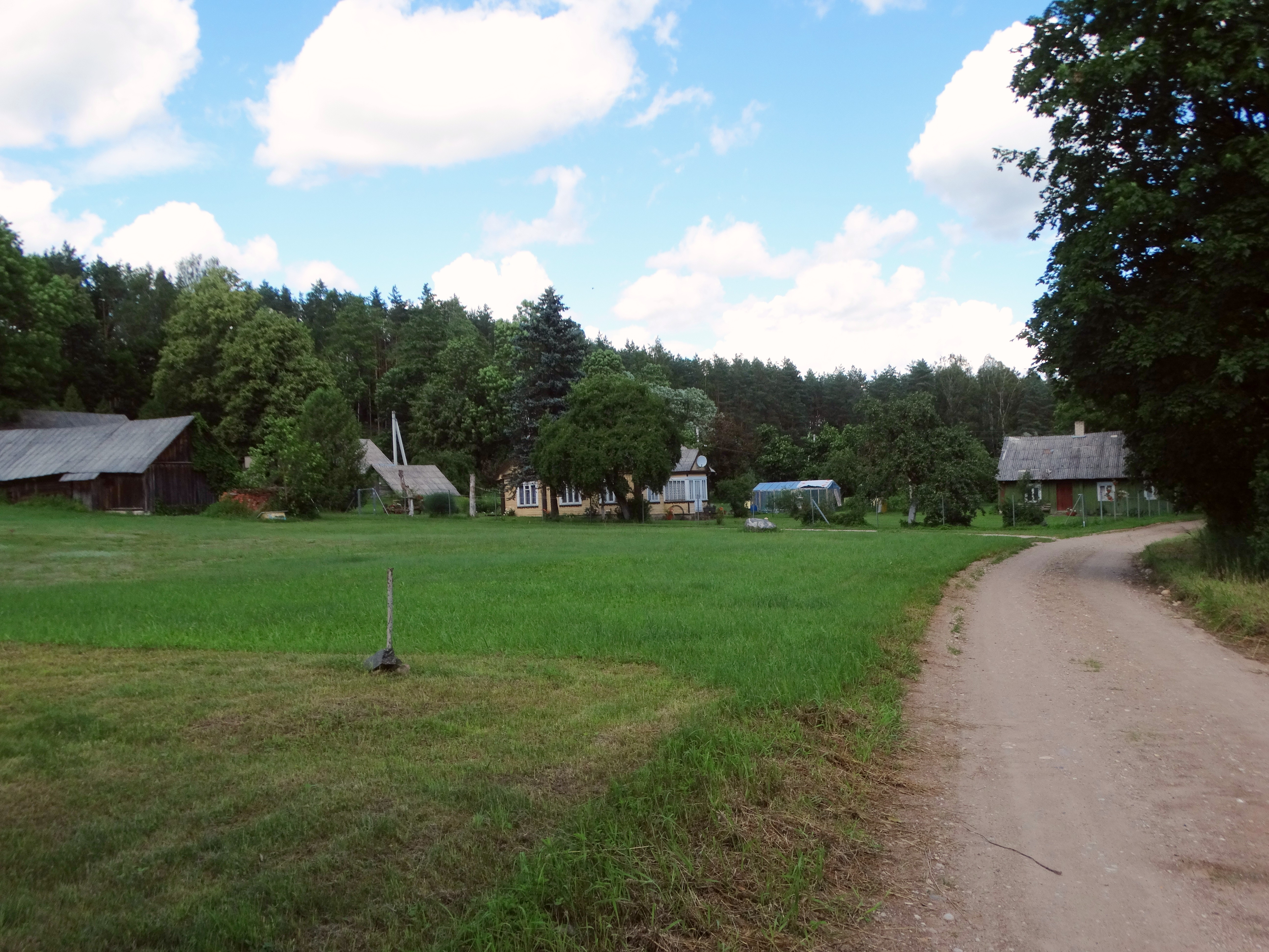 Dubiai, Jonava district, Lithuania